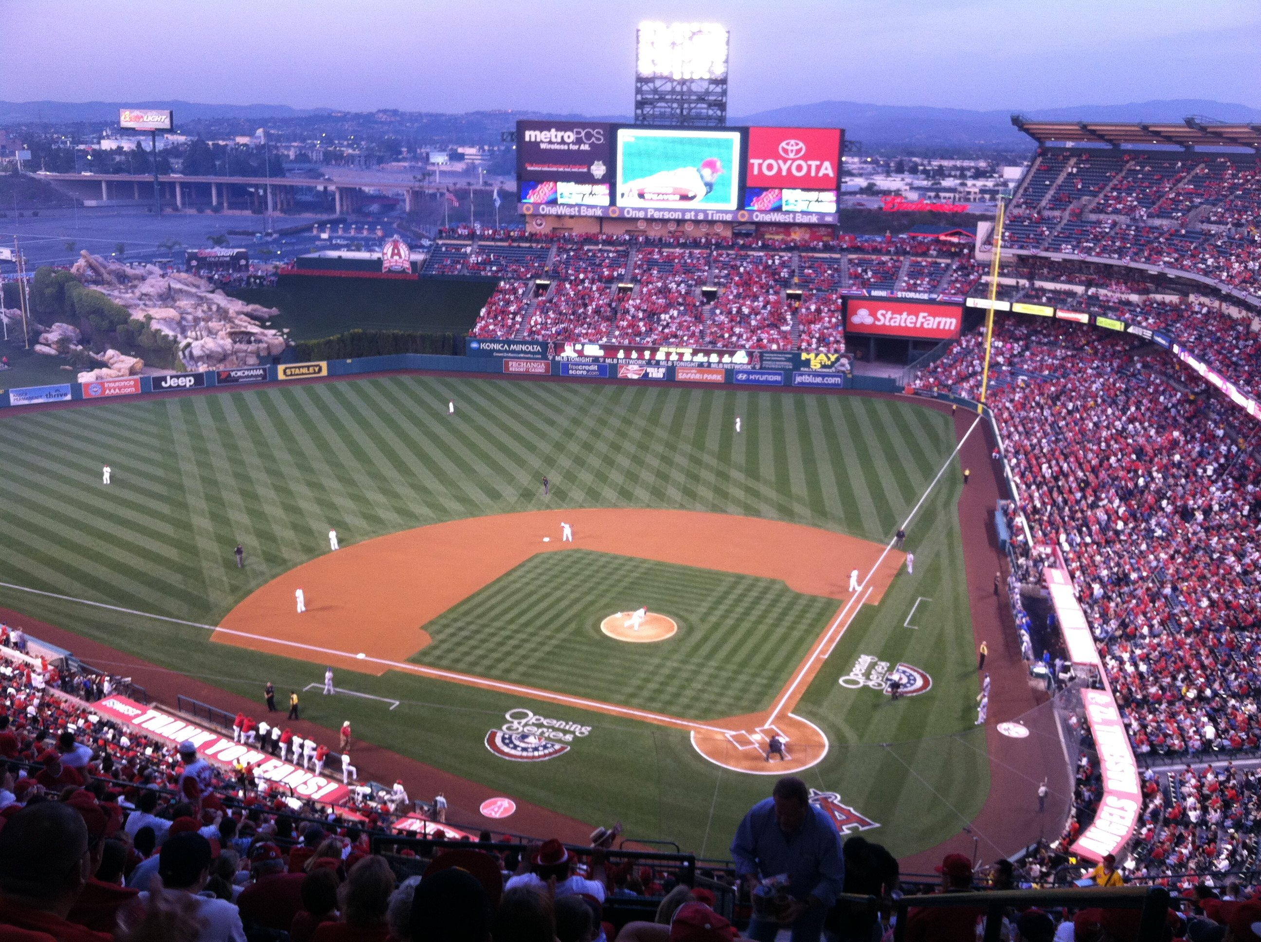 Picture of Angel Stadium of Anaheim before the Angels 2012 season opener against Kansas City.